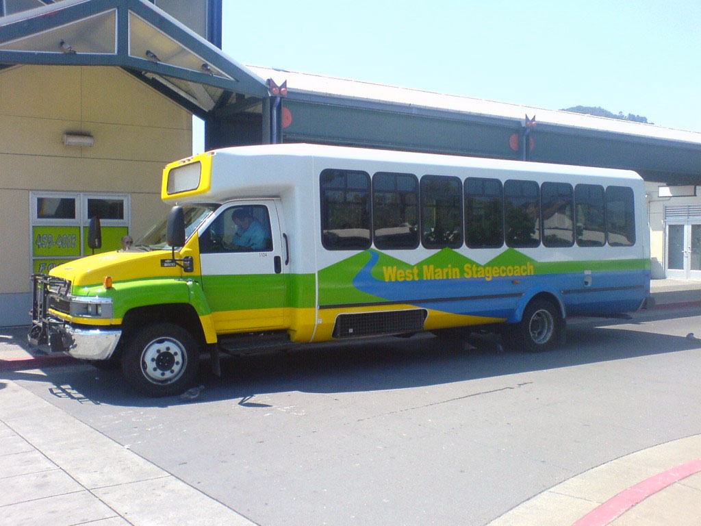 Marin Transit operated West Marin Stagecoach bus